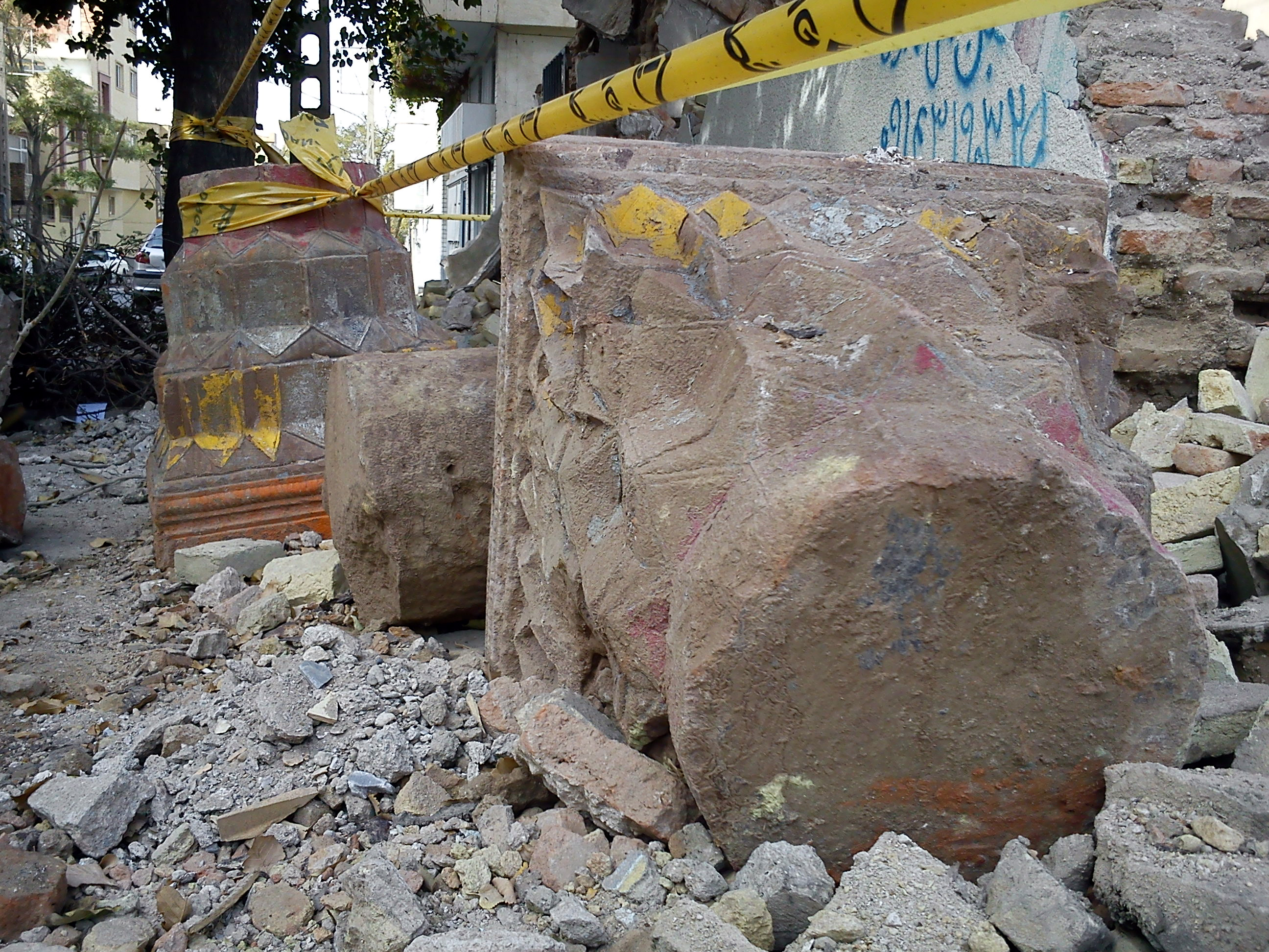 Shahzade public baths - Tabriz.